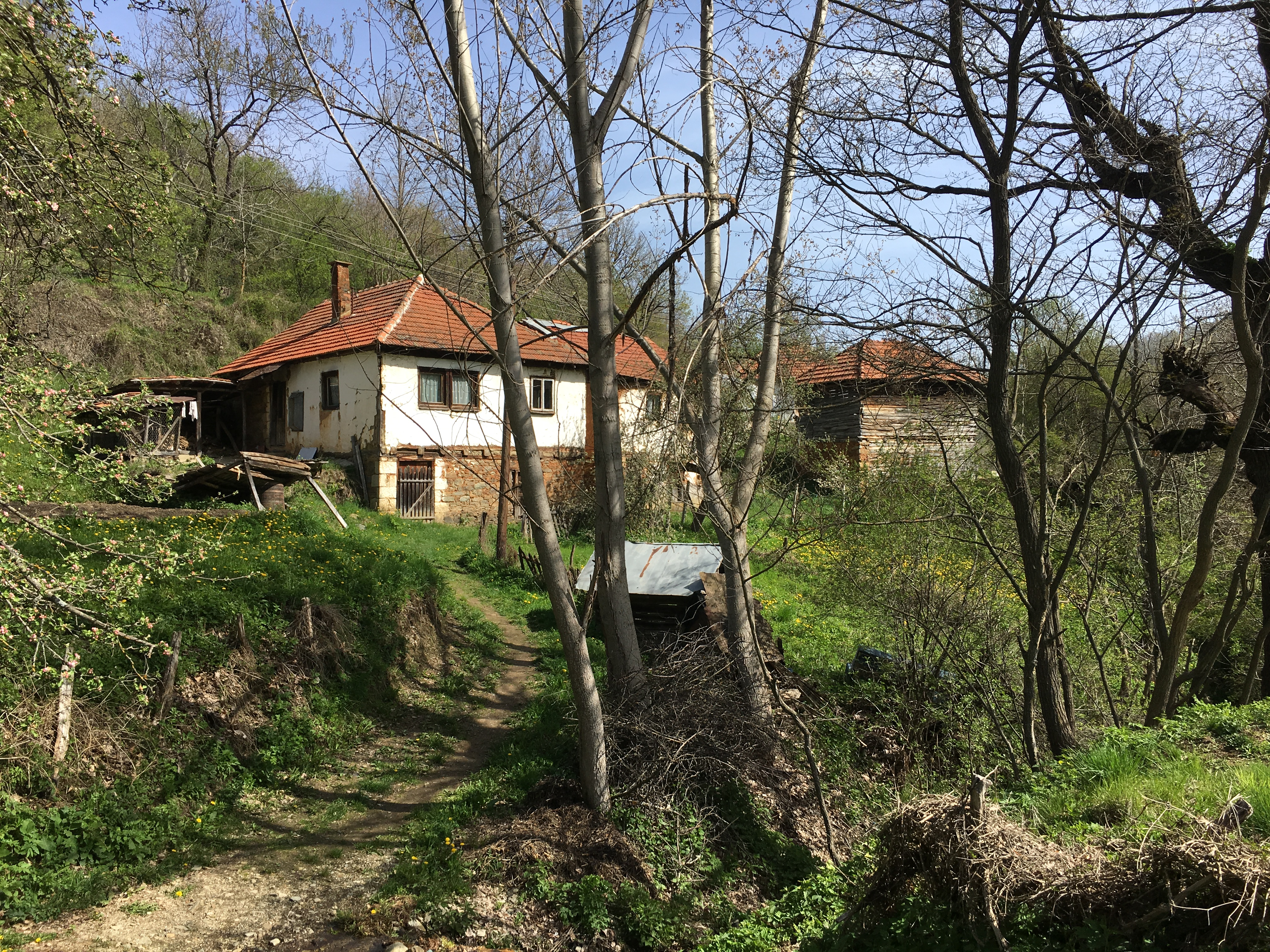 Houses in the village of Kostur